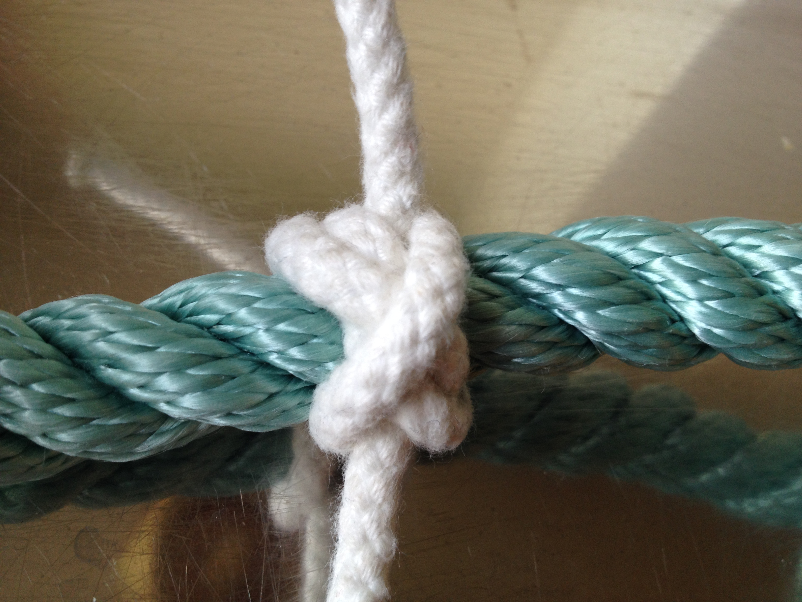 Step five of tying Constrictor knot with crossing bridges